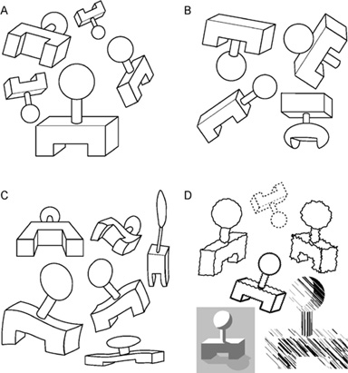 Demonstration of invariance in perception from Lehar S. (2003) The World In Your Head, Lawrence Erlbaum, Mahwah, NJ. p. 53, Fig. 3.5, uploaded by the author.